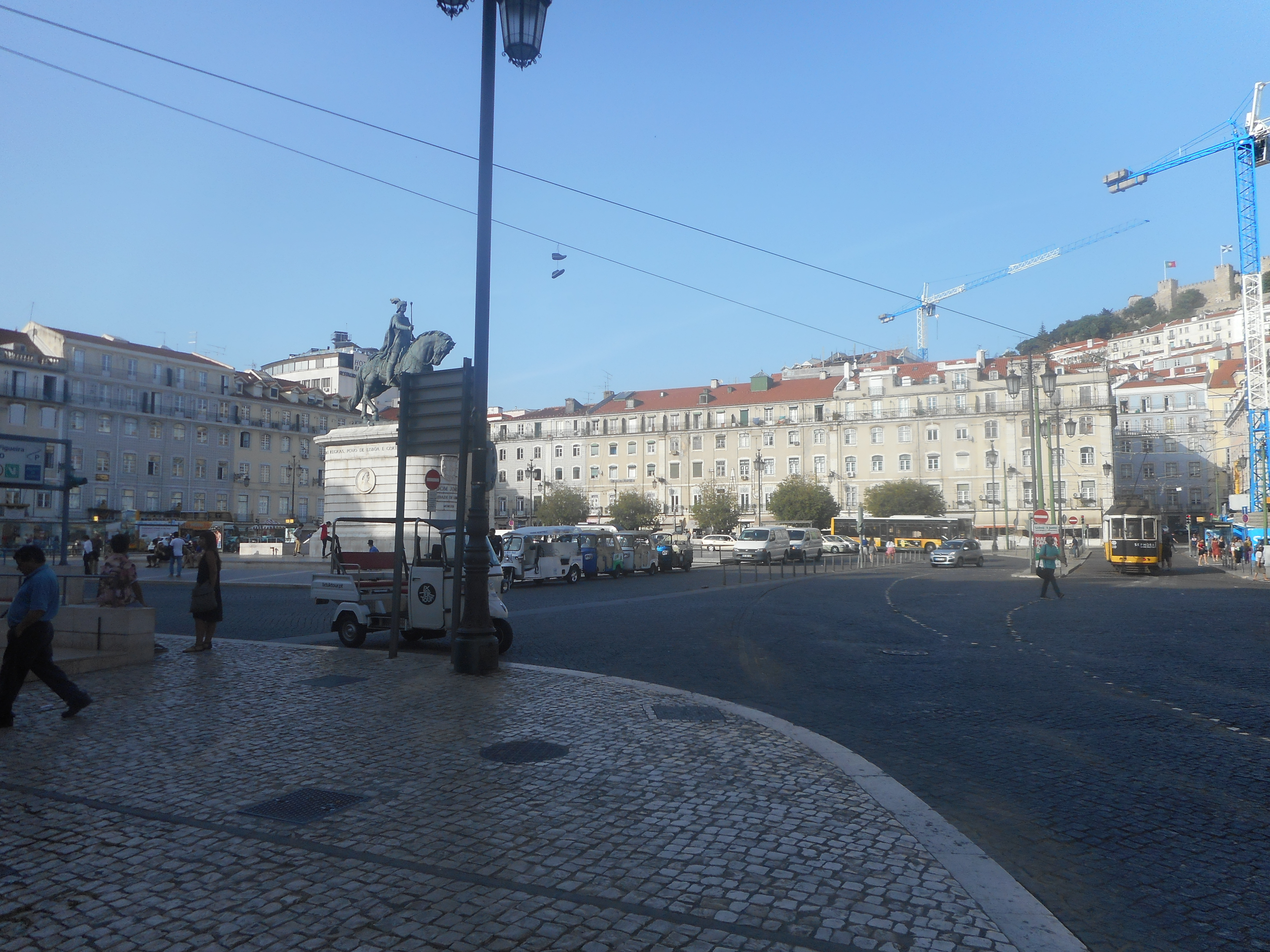 Square of the Fig Tree, Lisbon